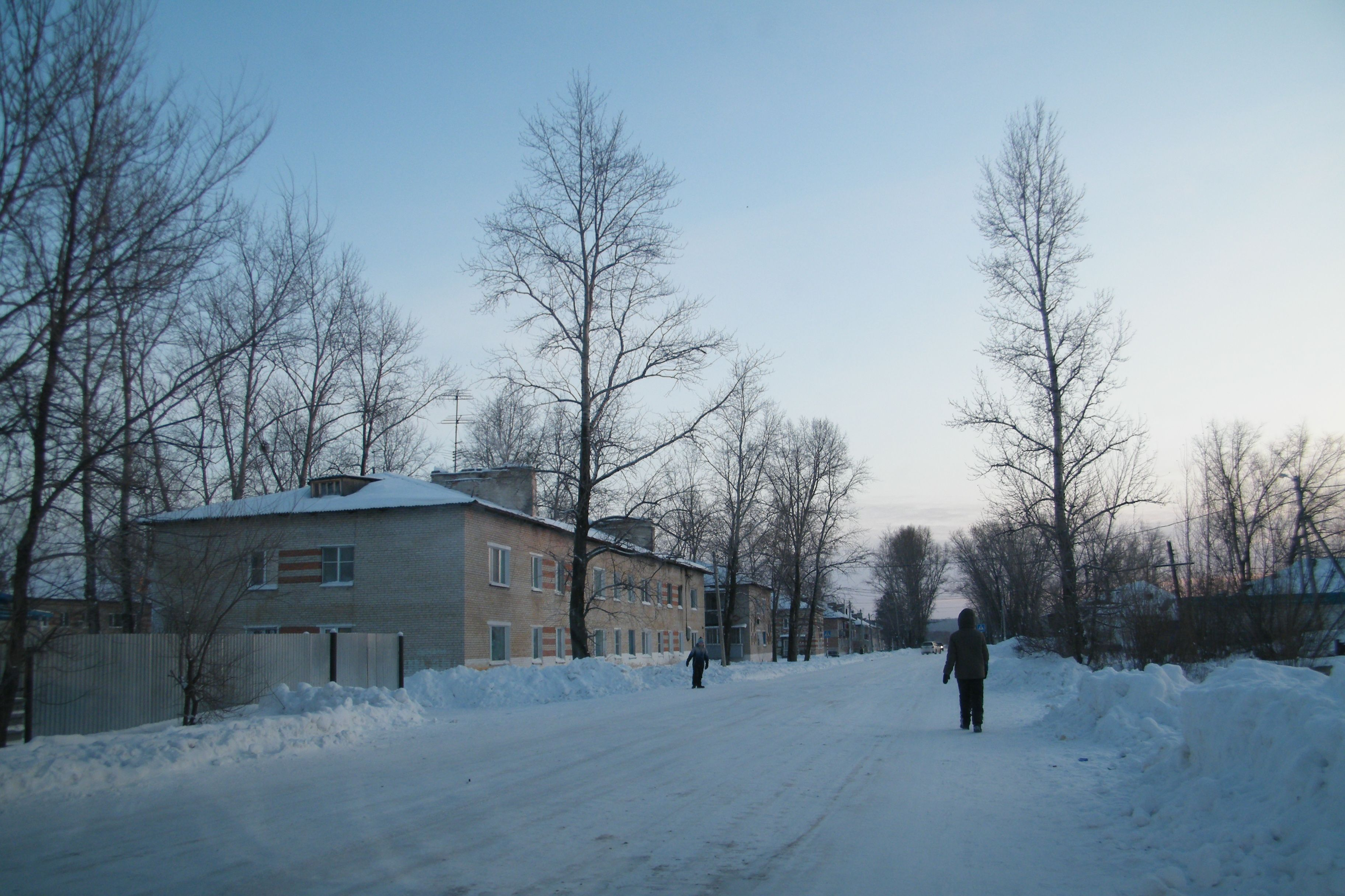 Khabarovsk Krai